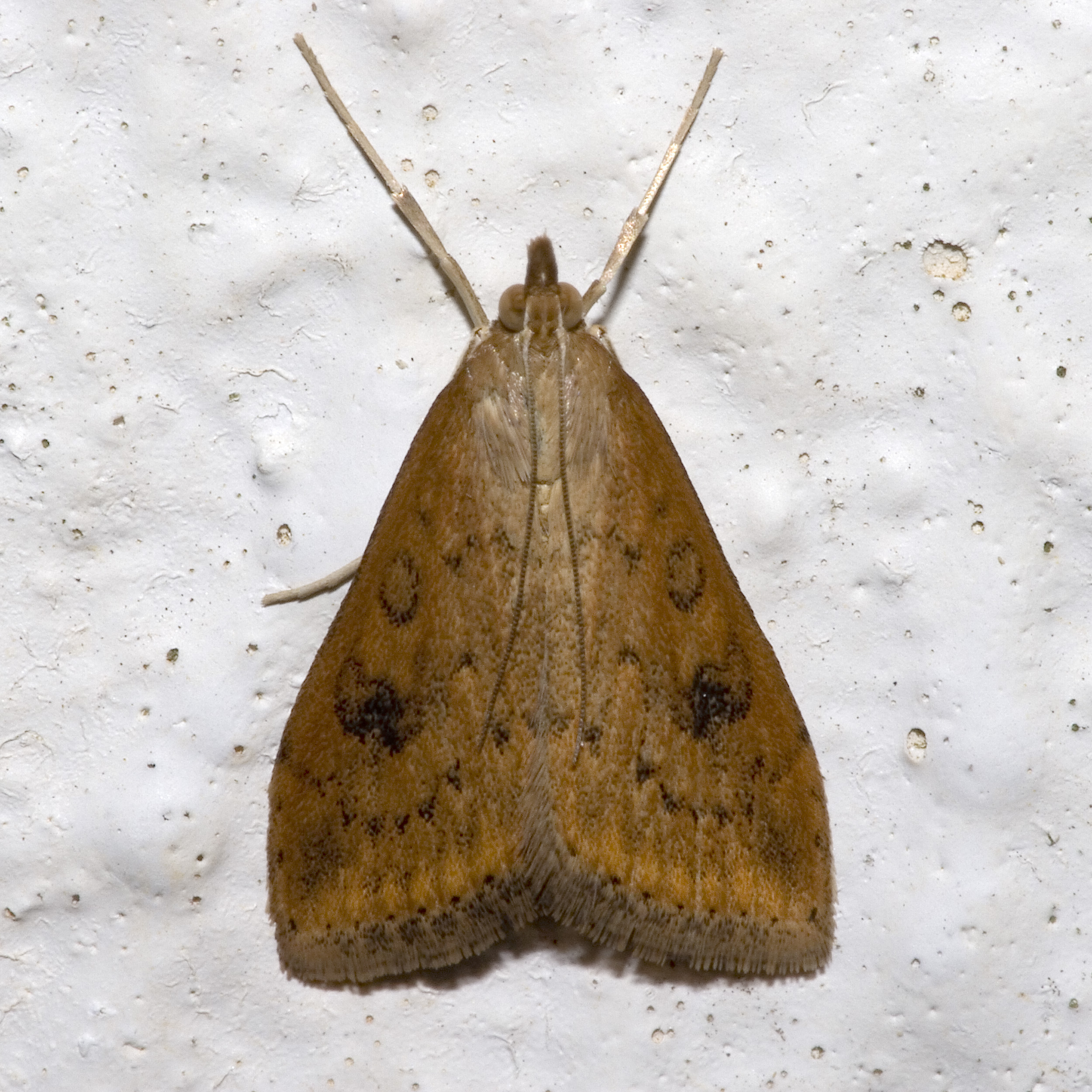 Udea ferrugalis (Hübner, 1796) Location: Prazeres, Madeira (Portugal) 5/180L f22 Film / Speed: ISO 100 Comment: Canon Flash 580EX